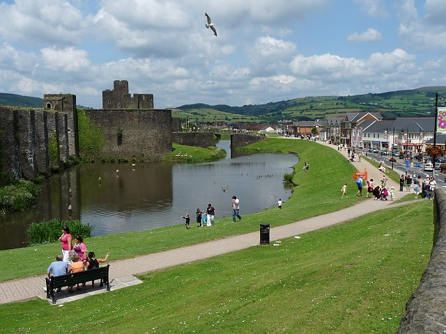 East side of Caerphilly Castle Castle Street is on the right. In the distance a footbridge across the moat gives access to the castle.